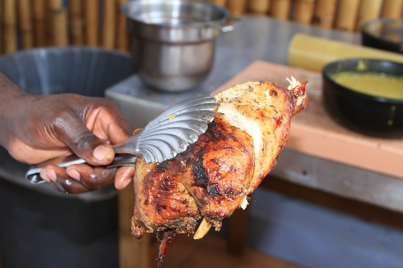 BBQ Chicken with Jerk Chicken Sauce served in Runaway Bay, Saint Ann, Jamaica